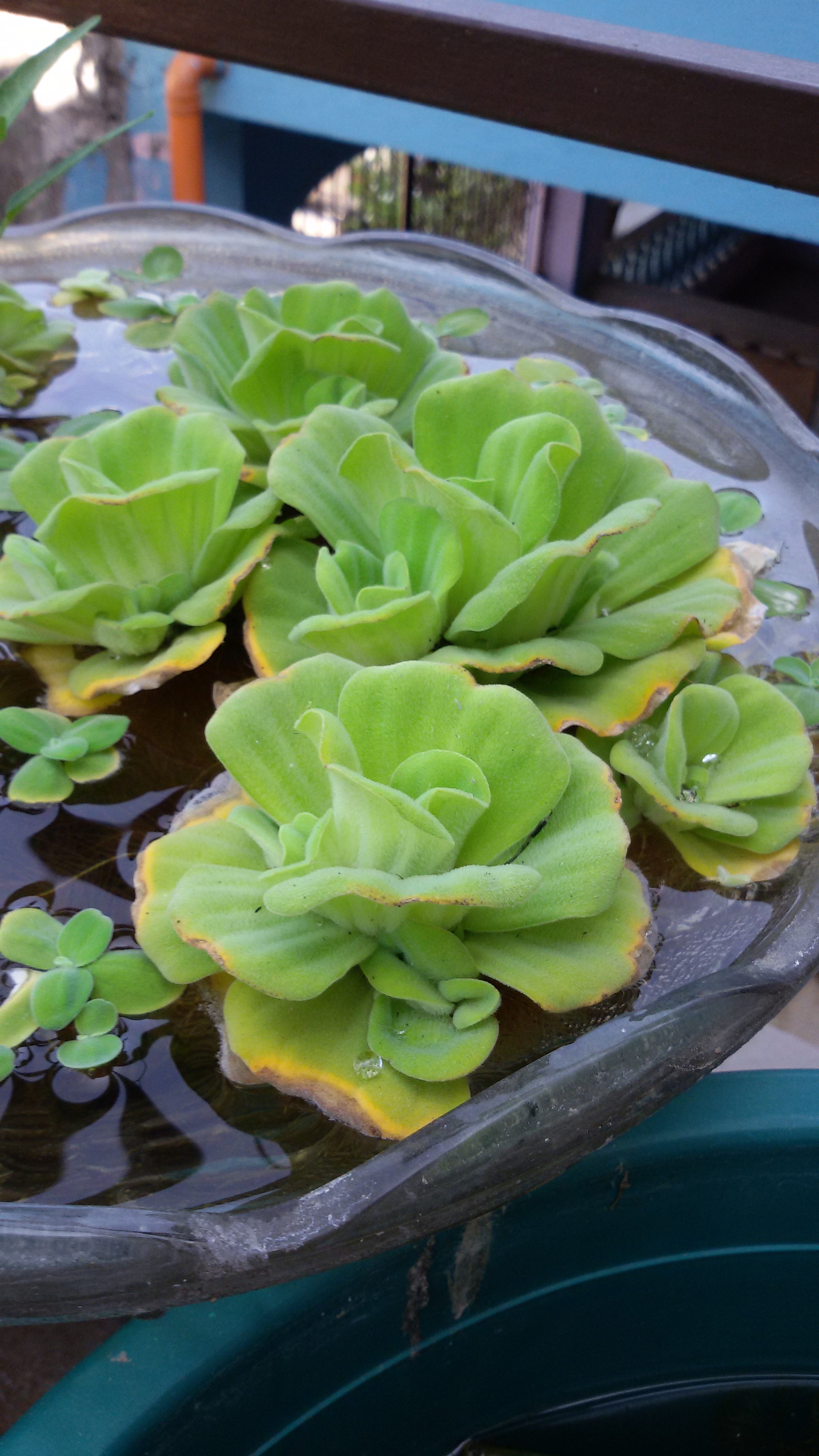 Water lettuce grown outdoors in San Mateo, Rizal, Philippines